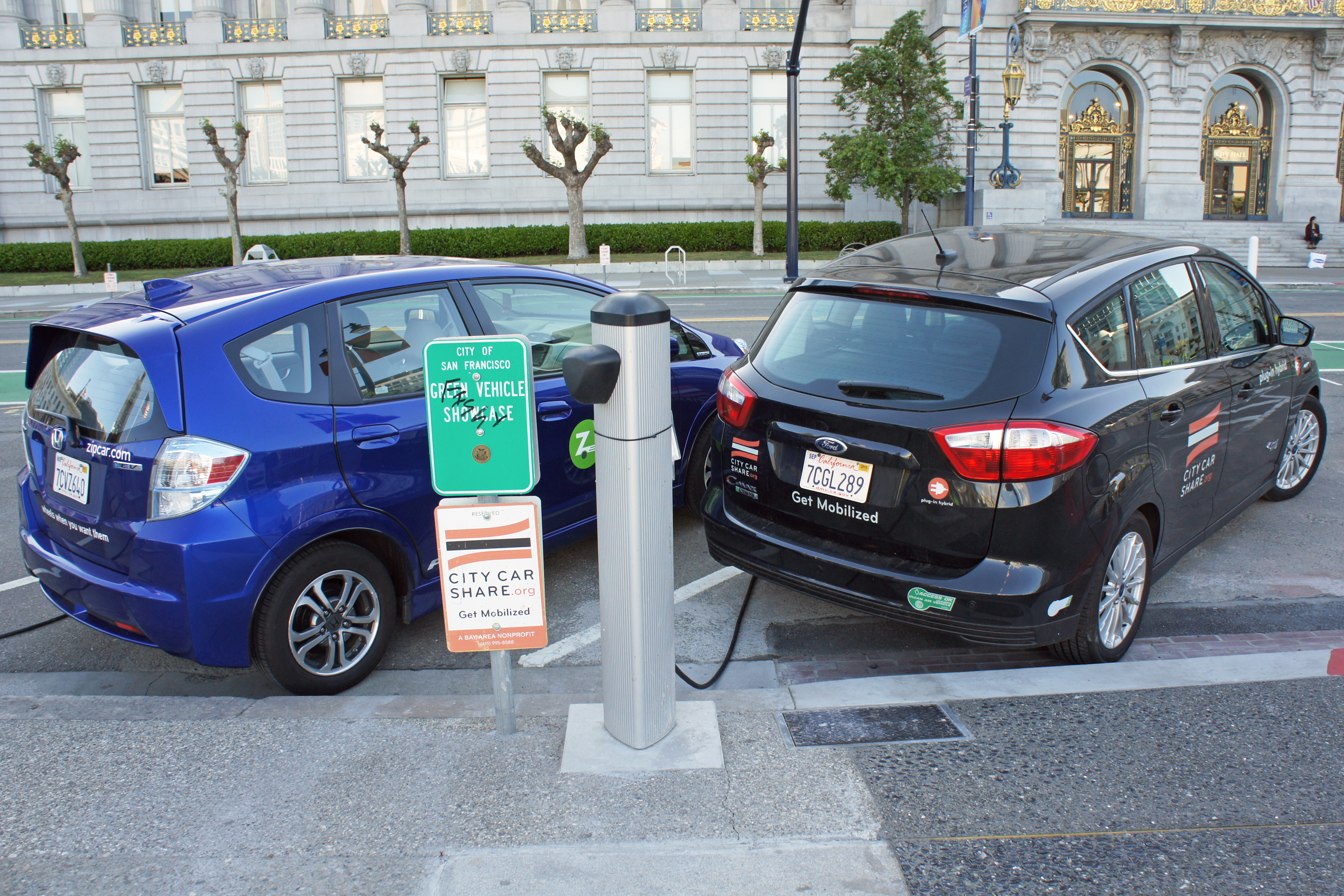 Carsharing plug-in electric cars, Honda Fit EV (Zipcar) and Ford C-Max Energi (City Car Share), at a public charging station in front of San Francisco City Hall